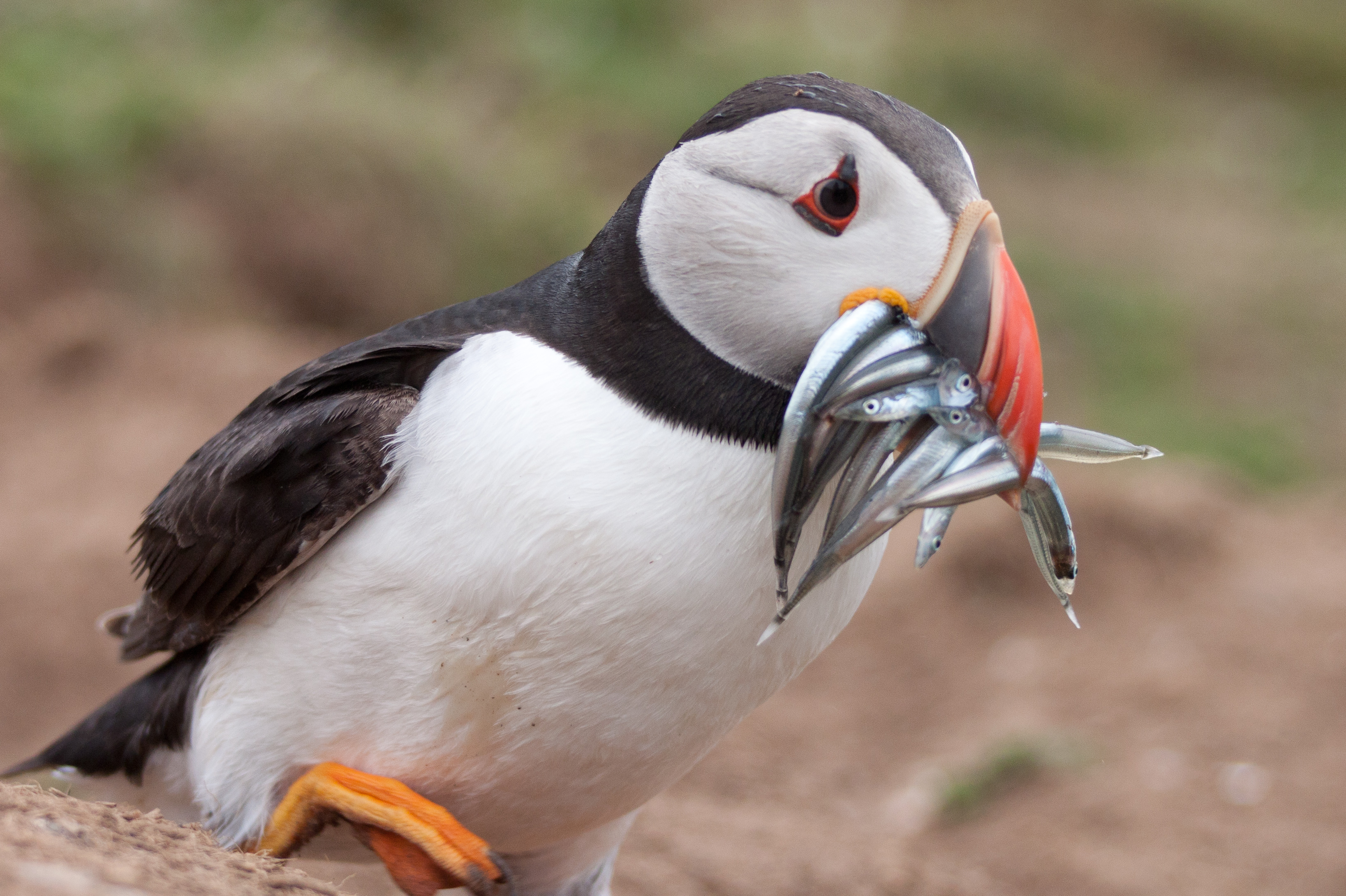 Atlantic puffin with fish.